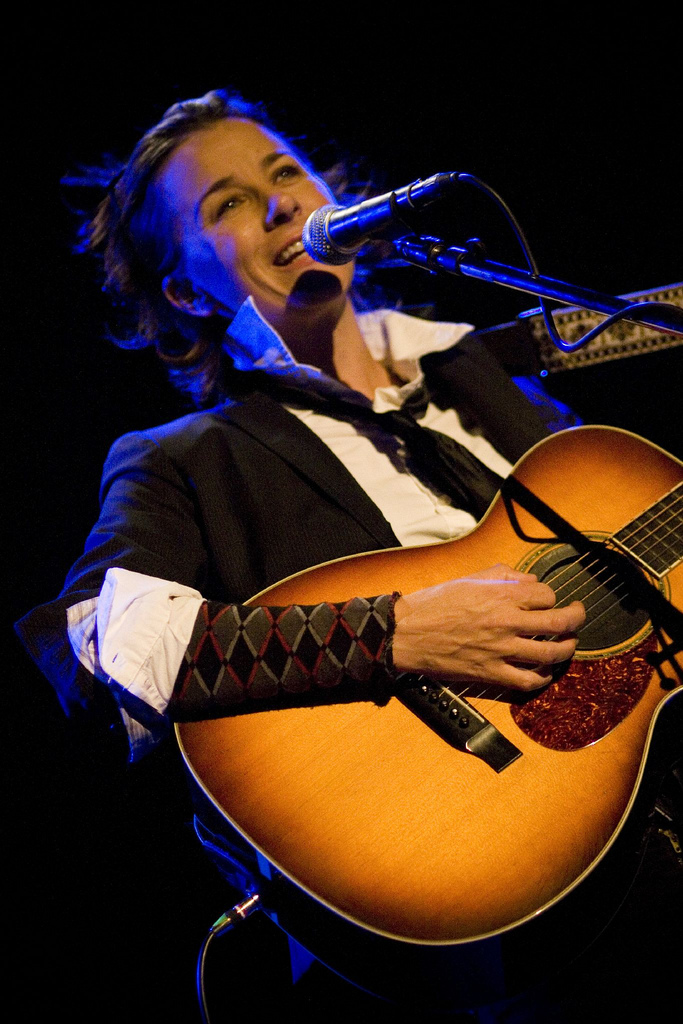 Melissa Ferrick @ the Bowery Ballroom, New York, NY, 9/10/08